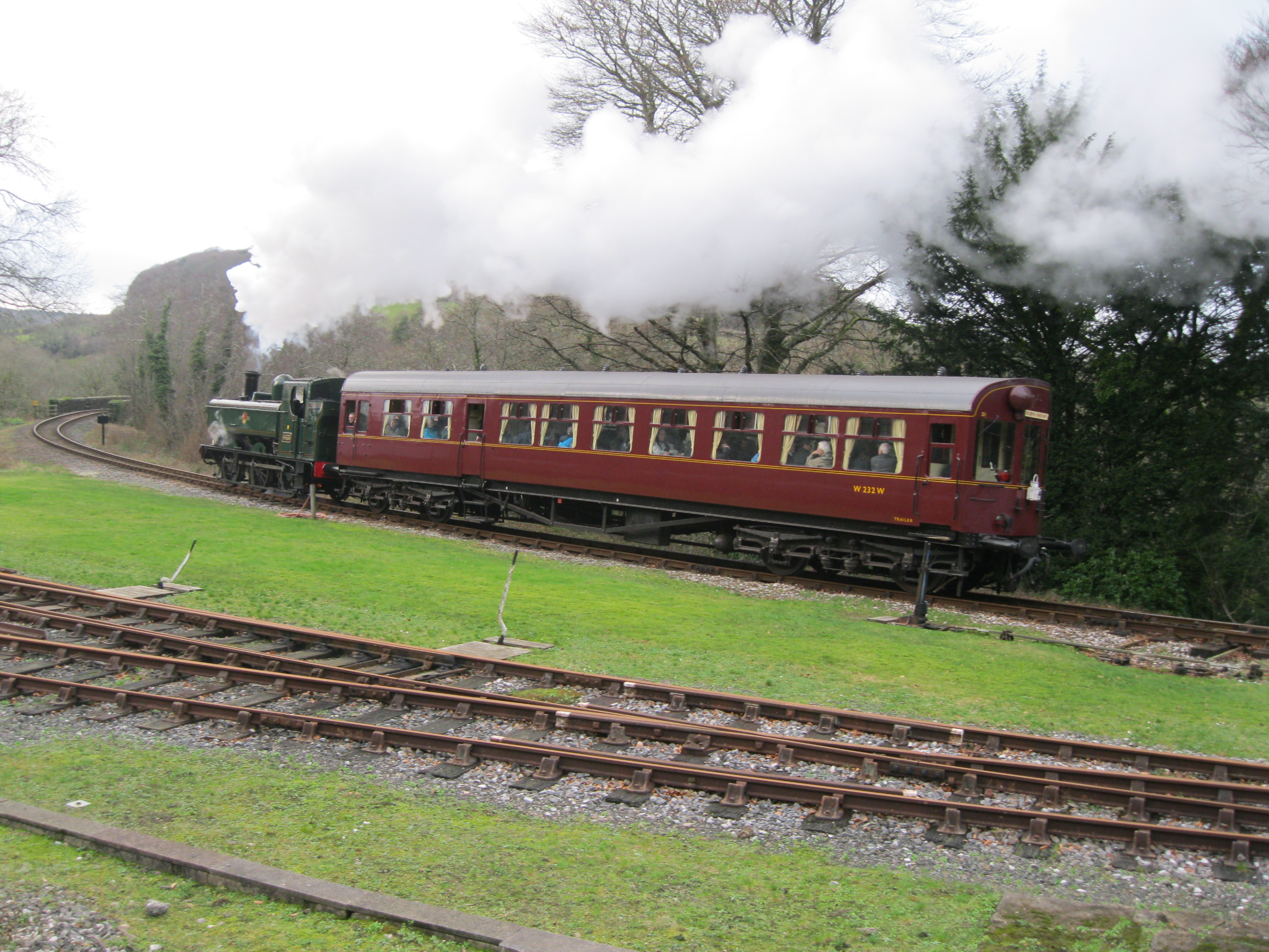 Bodmin & Wenford Railway - January 2013